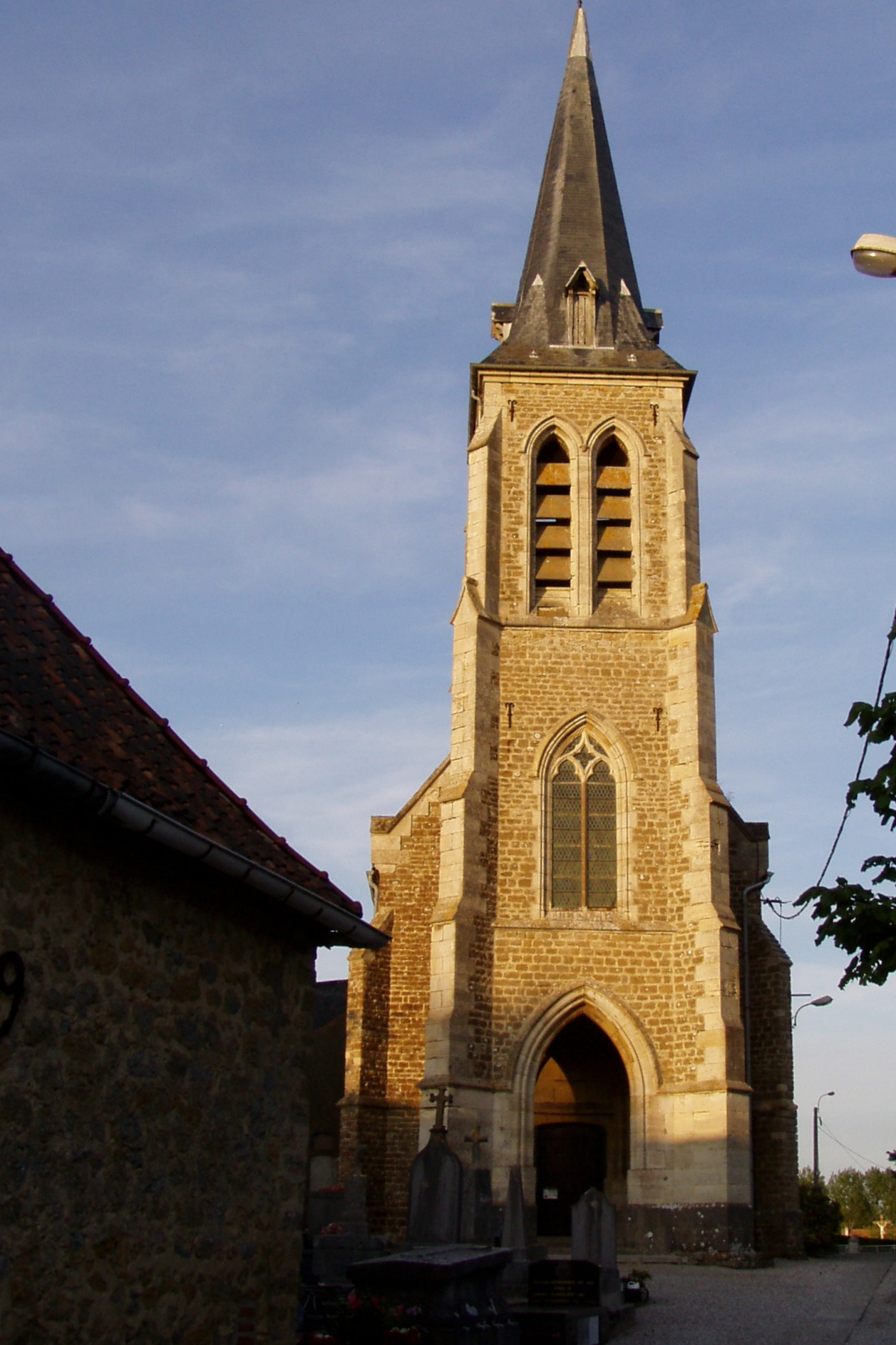 church Condette